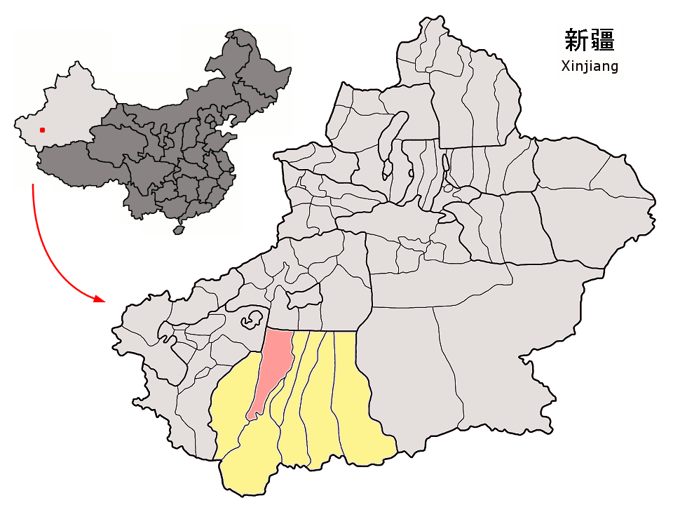 Location of Karakash County (pink) and Hotan Prefecture (yellow) within Xinjiang autonomous region of China Map drawn in september 2007 using various sources, mainly : Xinjiang Uygur autonomous region administrative regions GIS data: 1:1M, County level, 1990 Xinjiang Counties map from